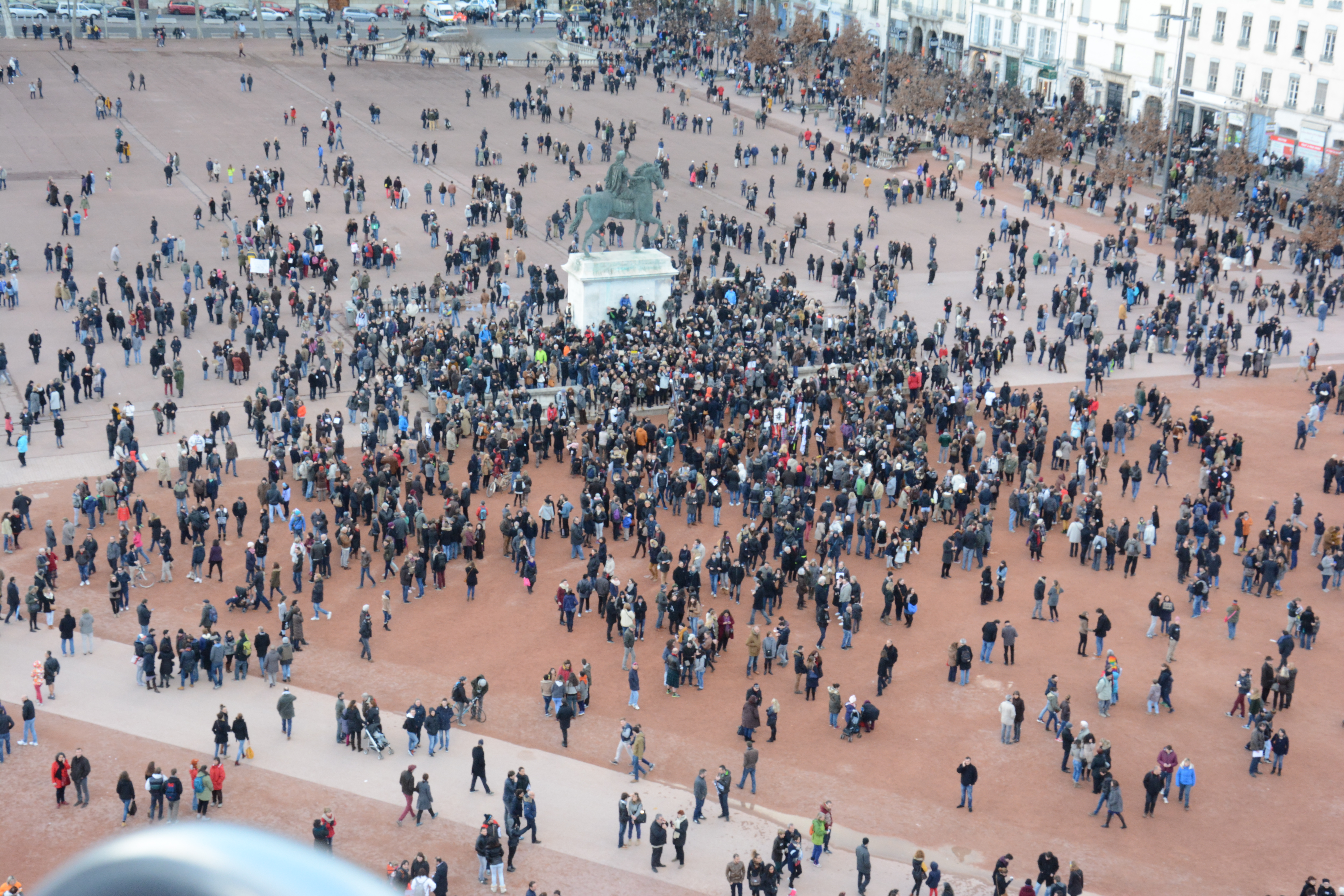 Republican march of january, the 11th 2015 to victimes of the attack of january, the 7th 2015 at the Charlie Hebdo's office